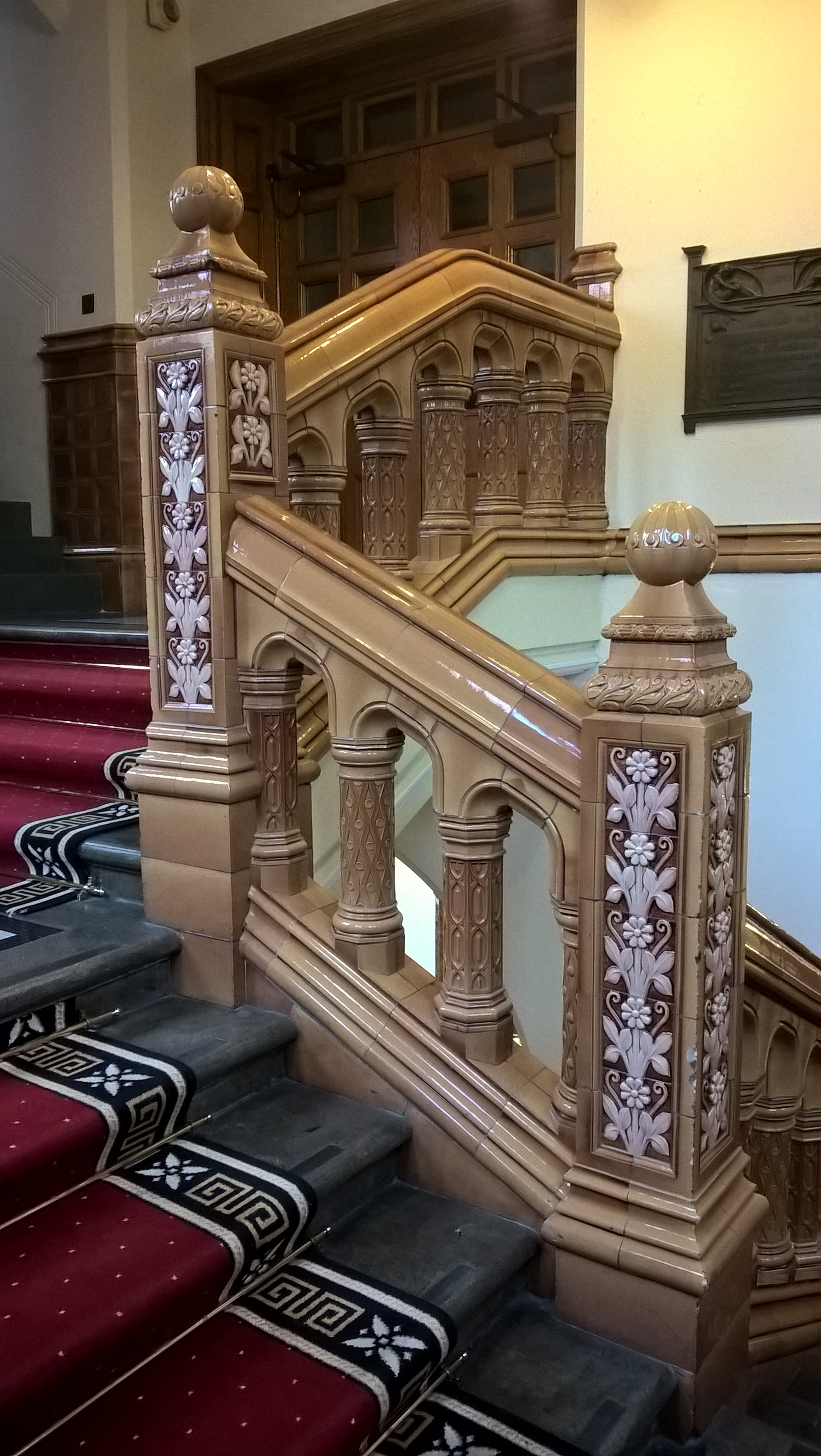 The staircase of the Great Hall building, University of Leeds, showing salt-glazed decorative mouldings known as Burmantofts Faience.